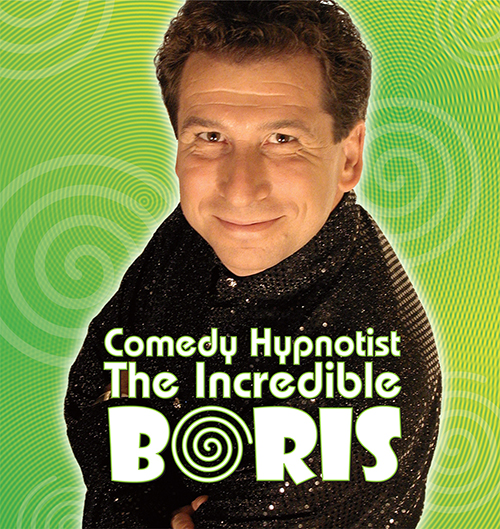 Hypnotist poster for media and print